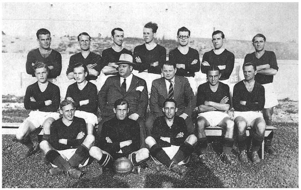 Swiss champion 1932/33 Servette FC Back: Käser, Loichot, Passello, L`Hôte, Kielholz, Rüegg, Lörtscher Middle: Guinchard, Oswald, Herren (President), Kellermüller (Manager), Amado, Tax Front: Marad, Séchehaye, Rappan